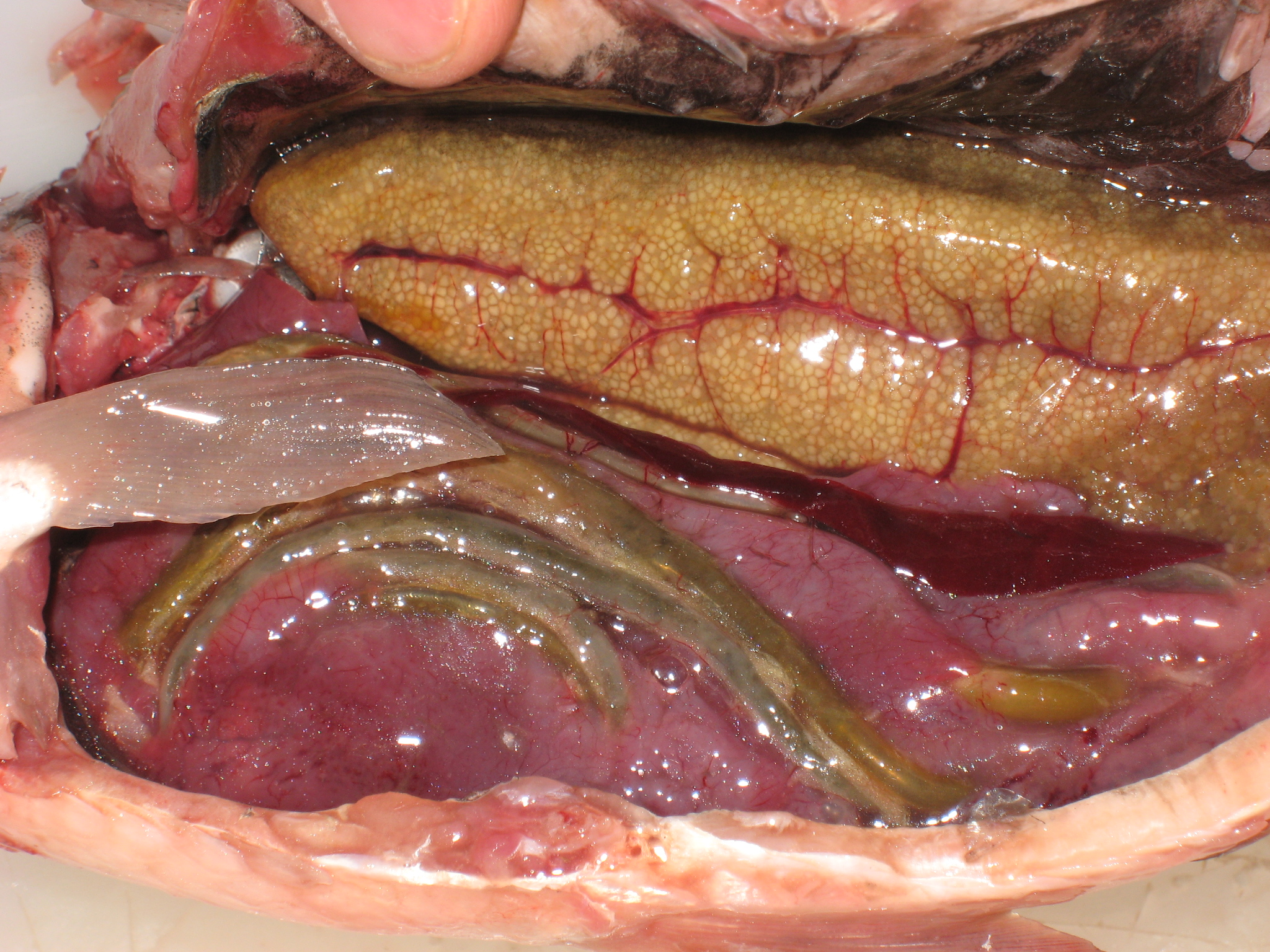 Big formated bowels of a crucian carp